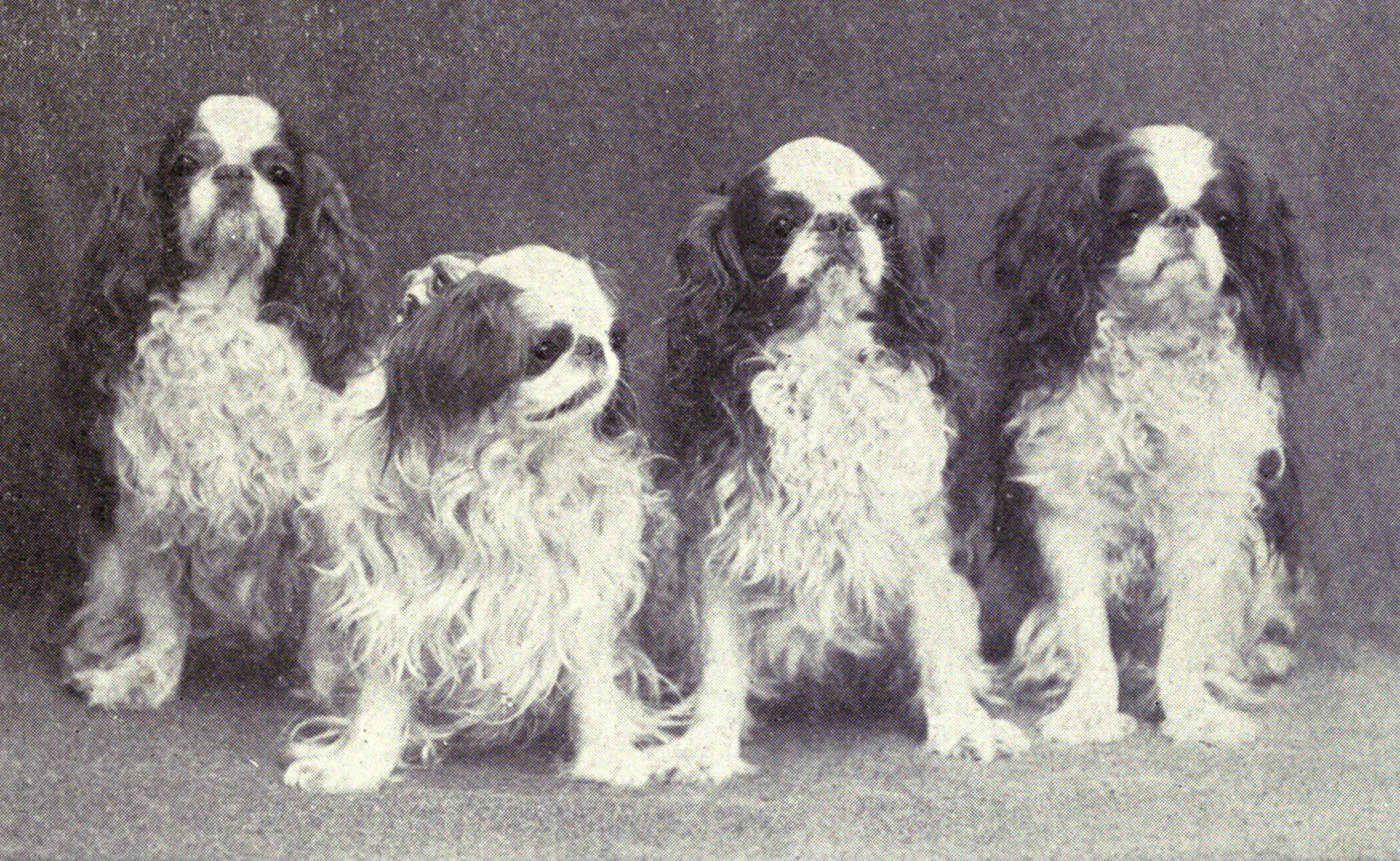 Toy Spaniel from 1915. Taken from a book published in San Francisco as advertising material for that year's World Fair. Exact publisher unknown.